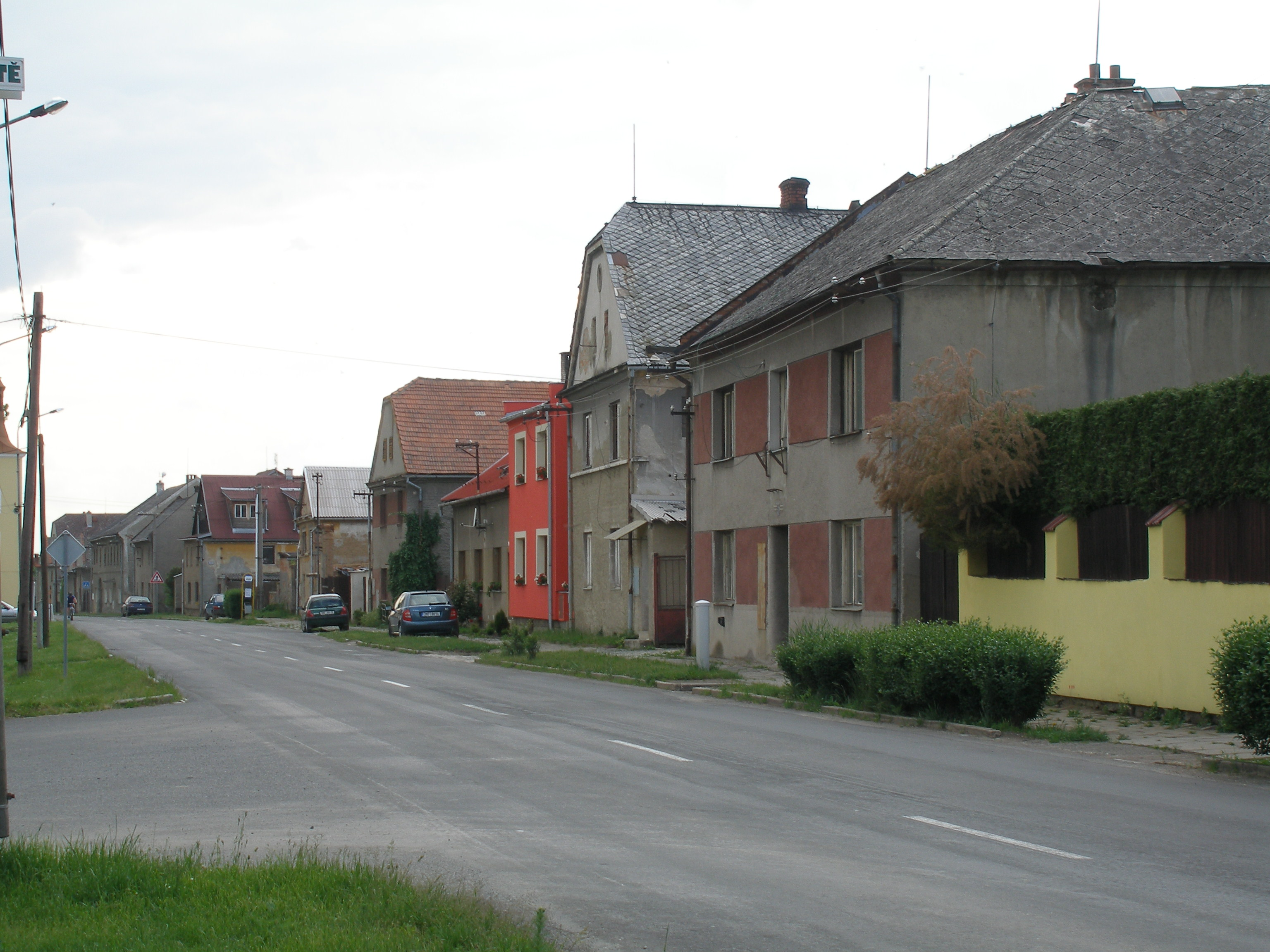 Lužice (Olomouc District) - houses on the main street